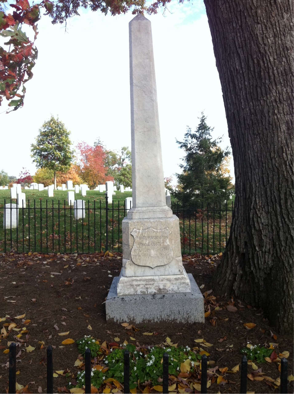 Grave of George Washington Parke Custis at Arlington National Cemetery